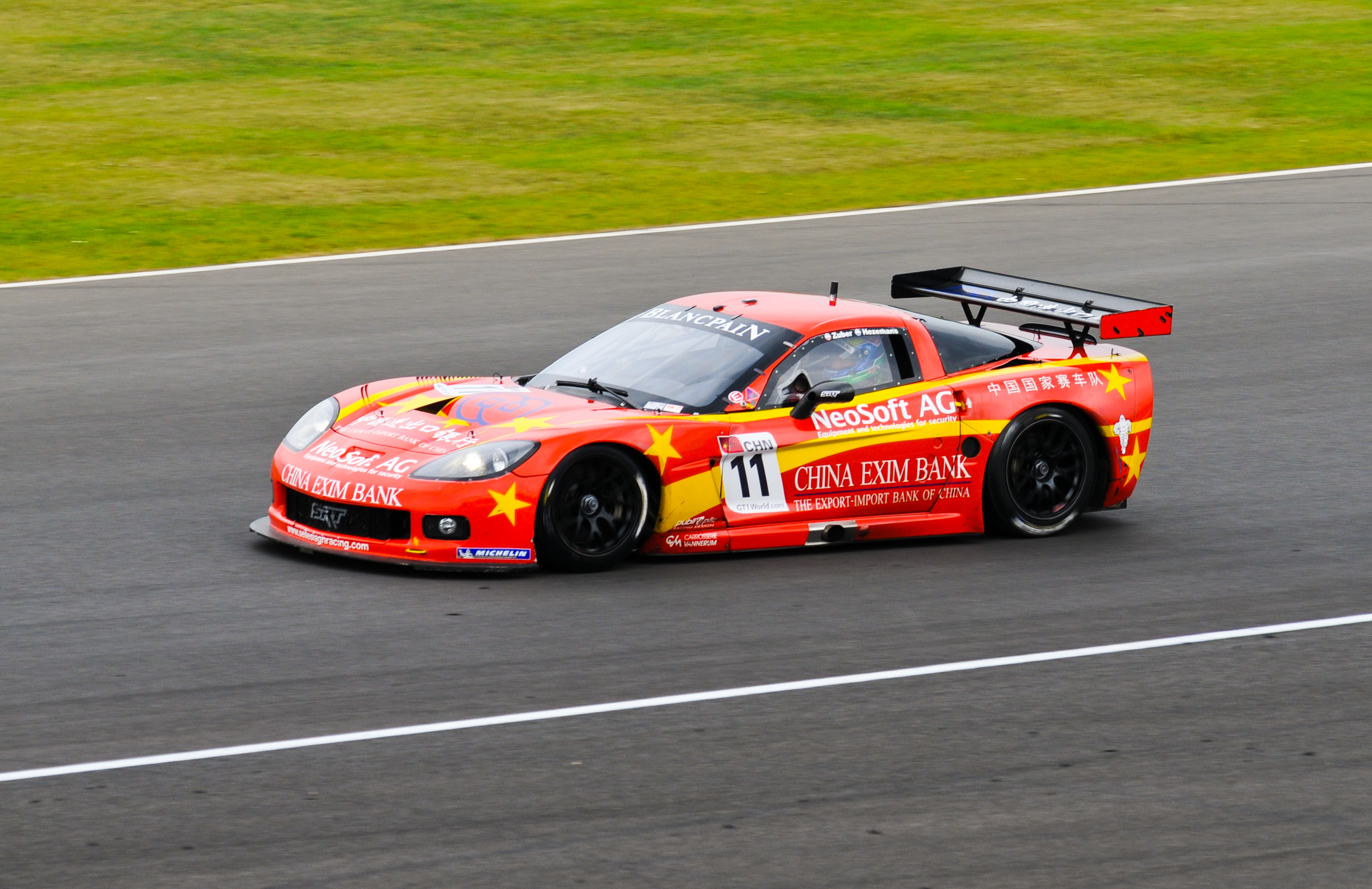 2011 FIA GT1 Silverstone round